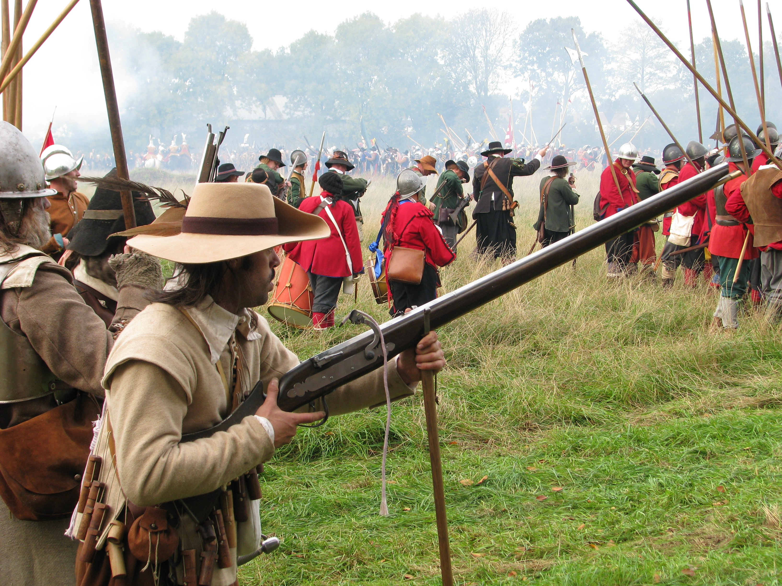 Spanish and Dutch troops during the Slag om Grolle (reenactment of the siege of Groenlo in 1627)